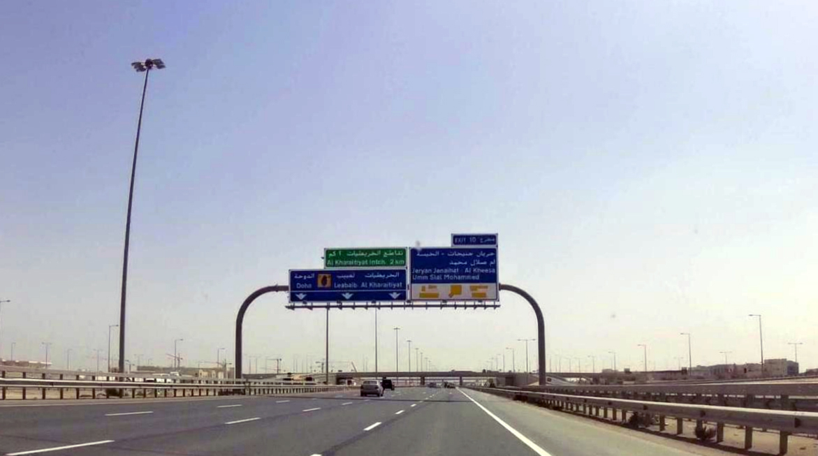 Southbound on Al Shamal Road near the Umm Salal Mohammed exit.